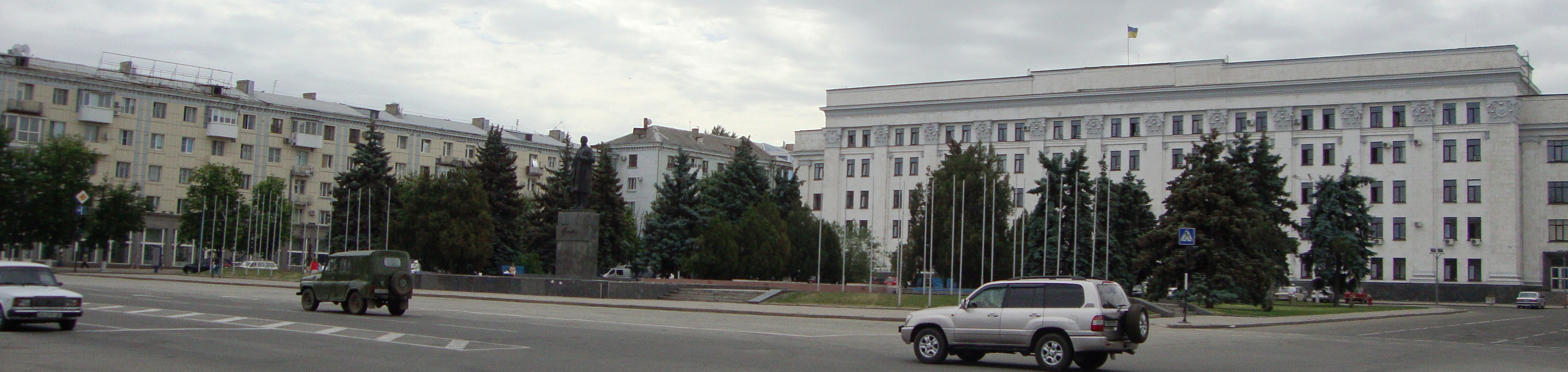 Theatral square in Luhansk